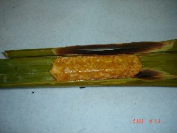 Author: Lim Thiam Poh Date: Sep 2006 Otak-otak Muar